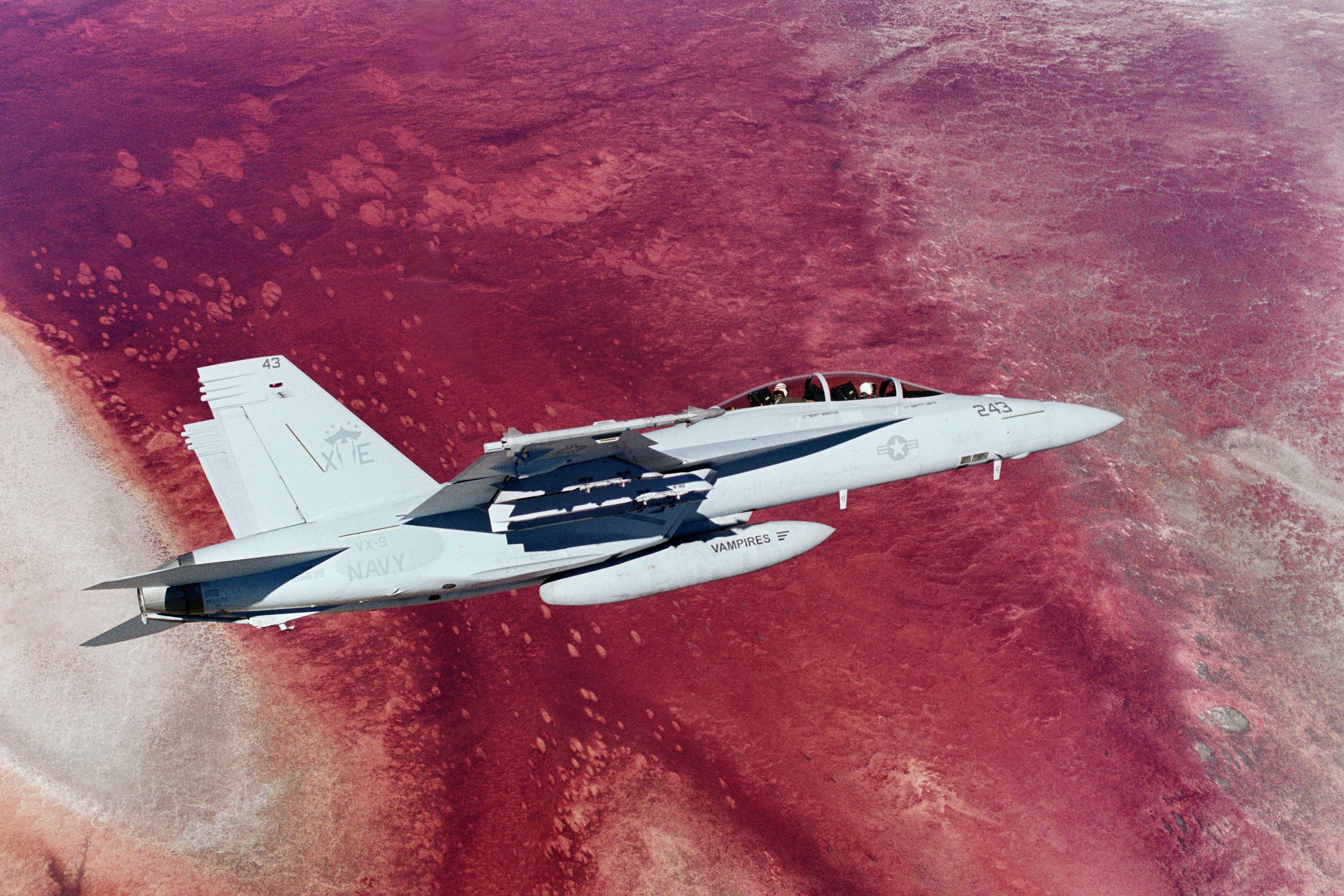 China Lake, Calif. (Dec. 15, 2005) – An F/A-18F Super Hornet assigned to Air Test and Evaluation Squadron Nine (VX-9) conducts an operation test mission, while over the Owens Lake in the vast Eastern High Sierra and Mojave test ranges. This aircraft is one of the first Super Hornets equipped with the revolutionary new APG-79 Active Electronically Scanned Array (AESA) radar, which could eventually give naval aircrews a quantum leap in tactical capability over older aircraft equipped with mechanical radar systems. U.S. Navy photo by Cmdr. Ian C. Anderson (RELEASED)